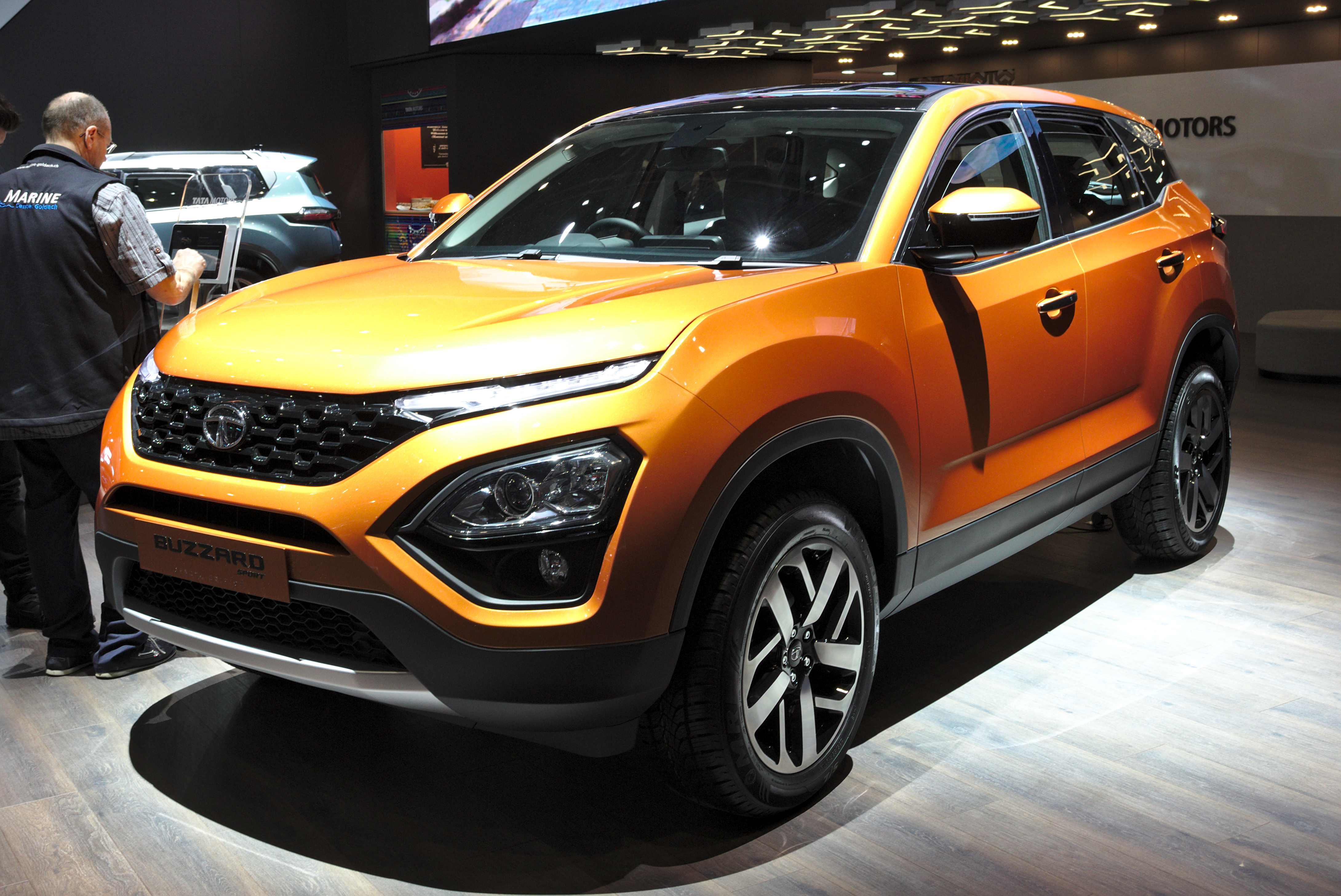 Tata Buzzard Sport at Geneva Motor Show 2019